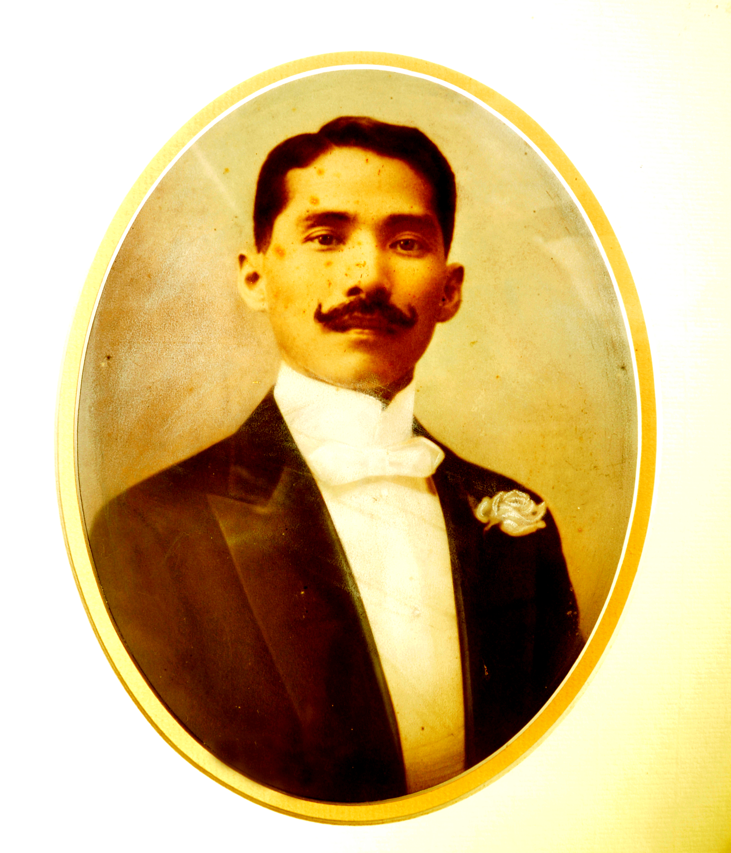 photograph of a portrait of General Benito Natividad approximately October, 1915